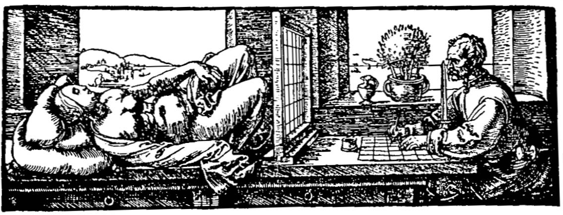 Artist drawing a picture of a lying woman by means of a lattice